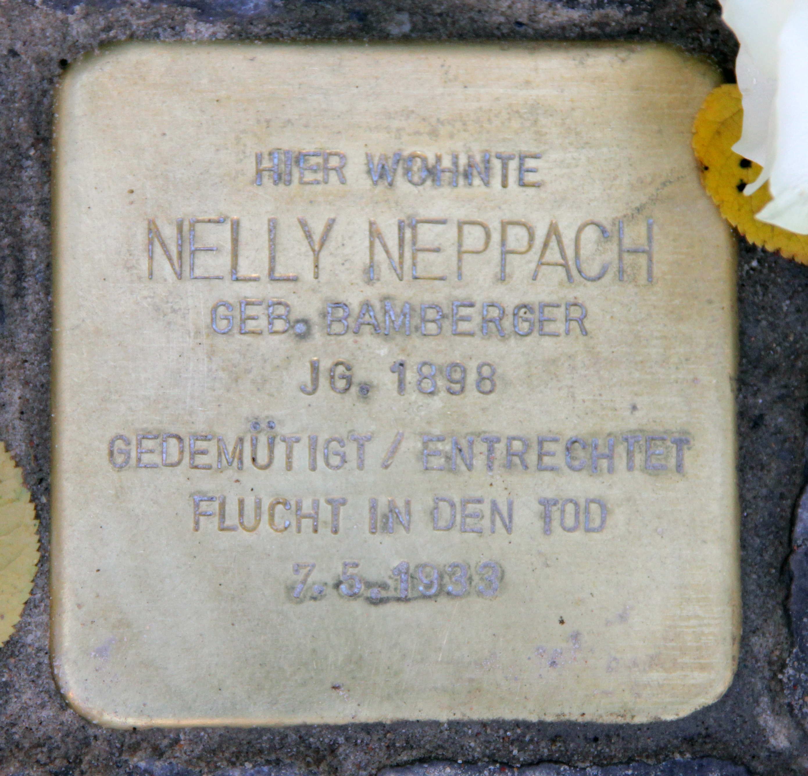 "Stolperstein" (stumbling block), Nelly Neppach, Nachodstraße 22, Berlin-Wilmersdorf, Germany